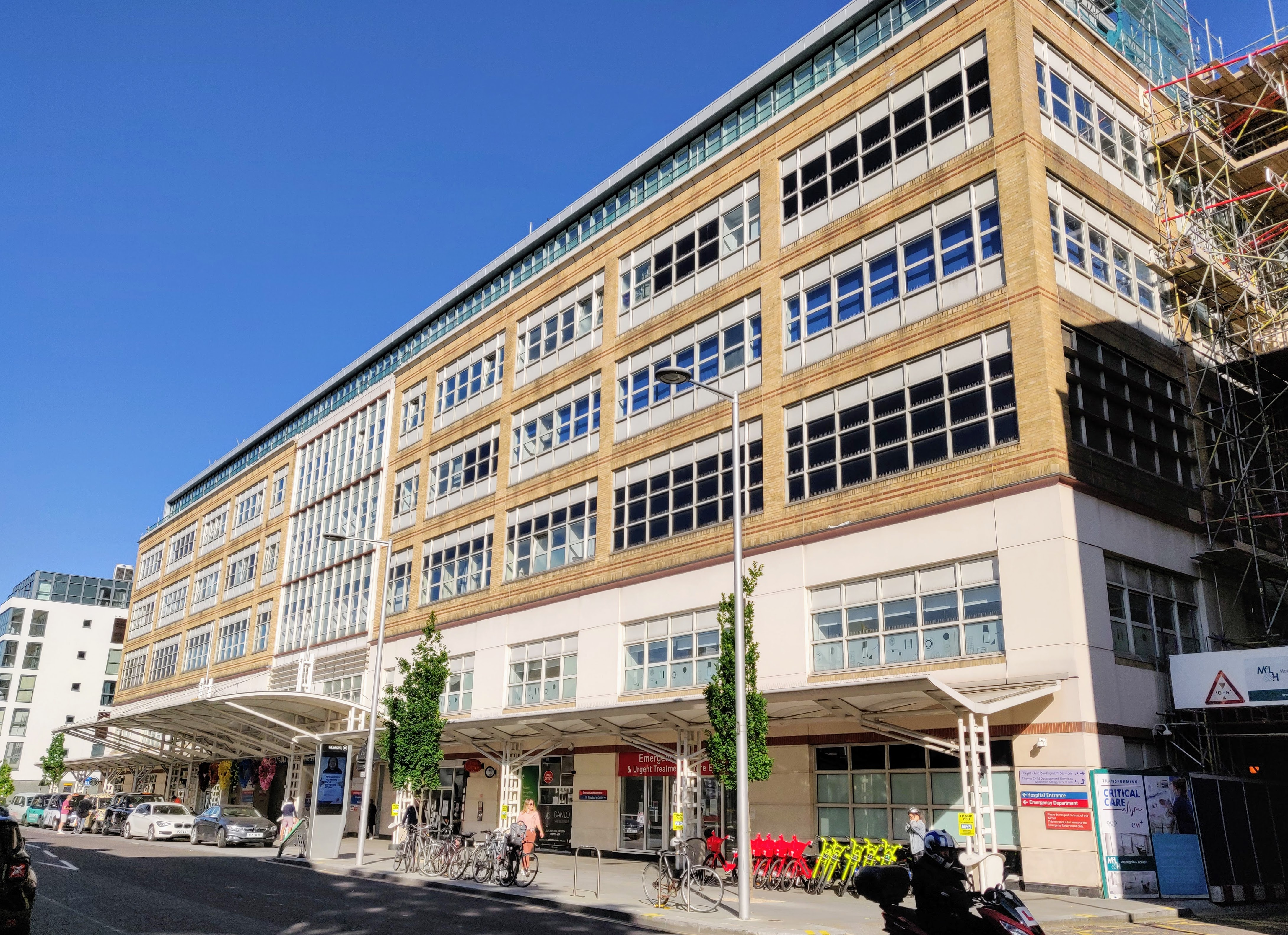 Chelsea and Westminster hospital is the modern incarnation of Westminster Hospital, a historic London hospital. Located on Fulham Road, the hospital has no campus, being a large complex right in the urban sprawl. The hospital is associated with Imperial College London.